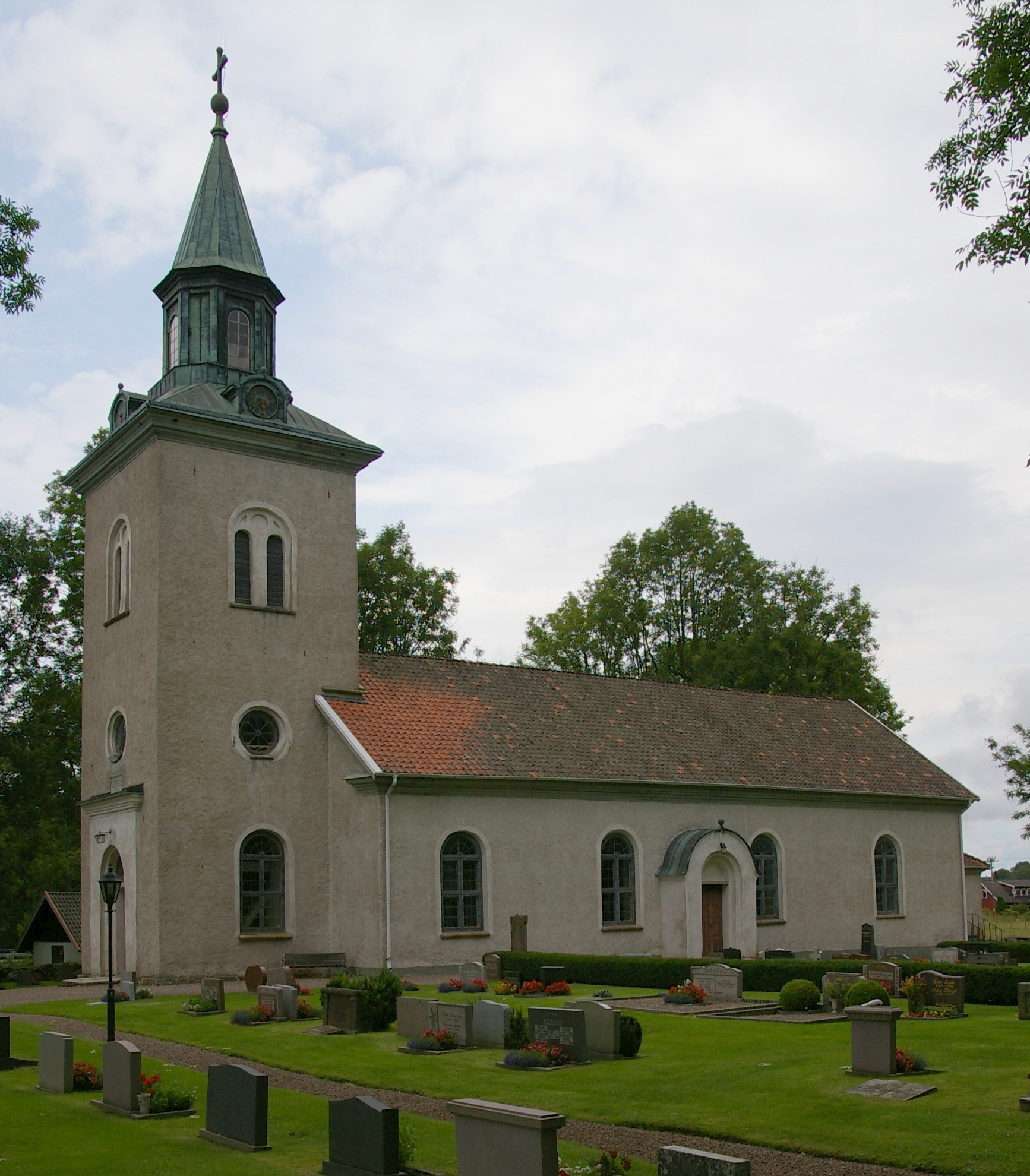 Grolanda kyrka (Swedish:Church of Grolanda) in Västergötland, Sweden.